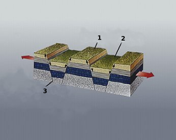 Geological structures of Horst and Graben. Internationalization of the diagram: 1=Horst, 2=Graben and 3=Normal fault